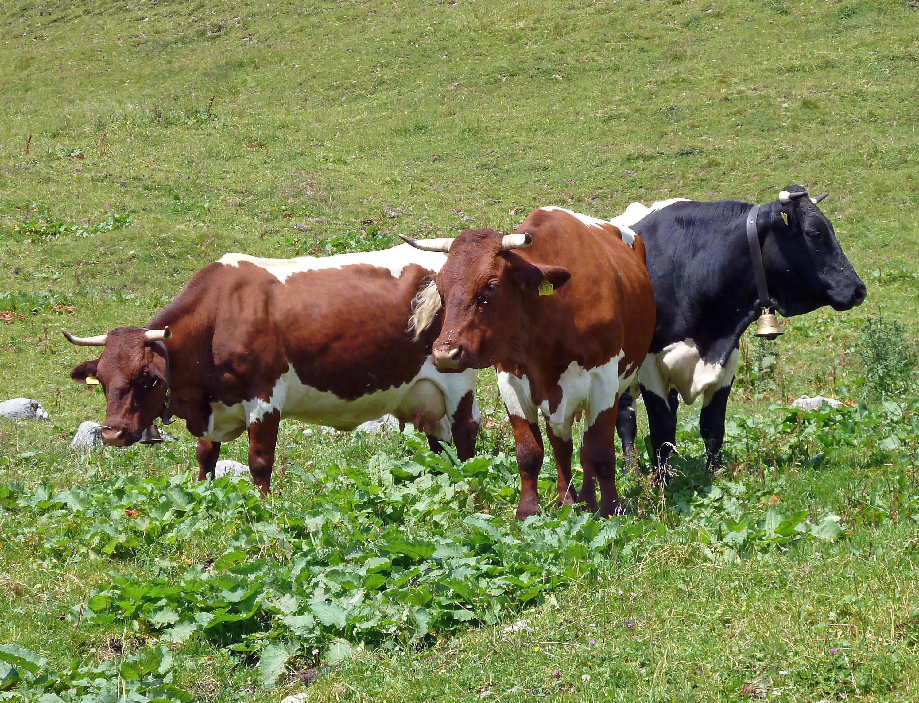 Pinzgau cattle on mountain (or valley) pastures in the Pinzgau, Salzburg (state), Austria.